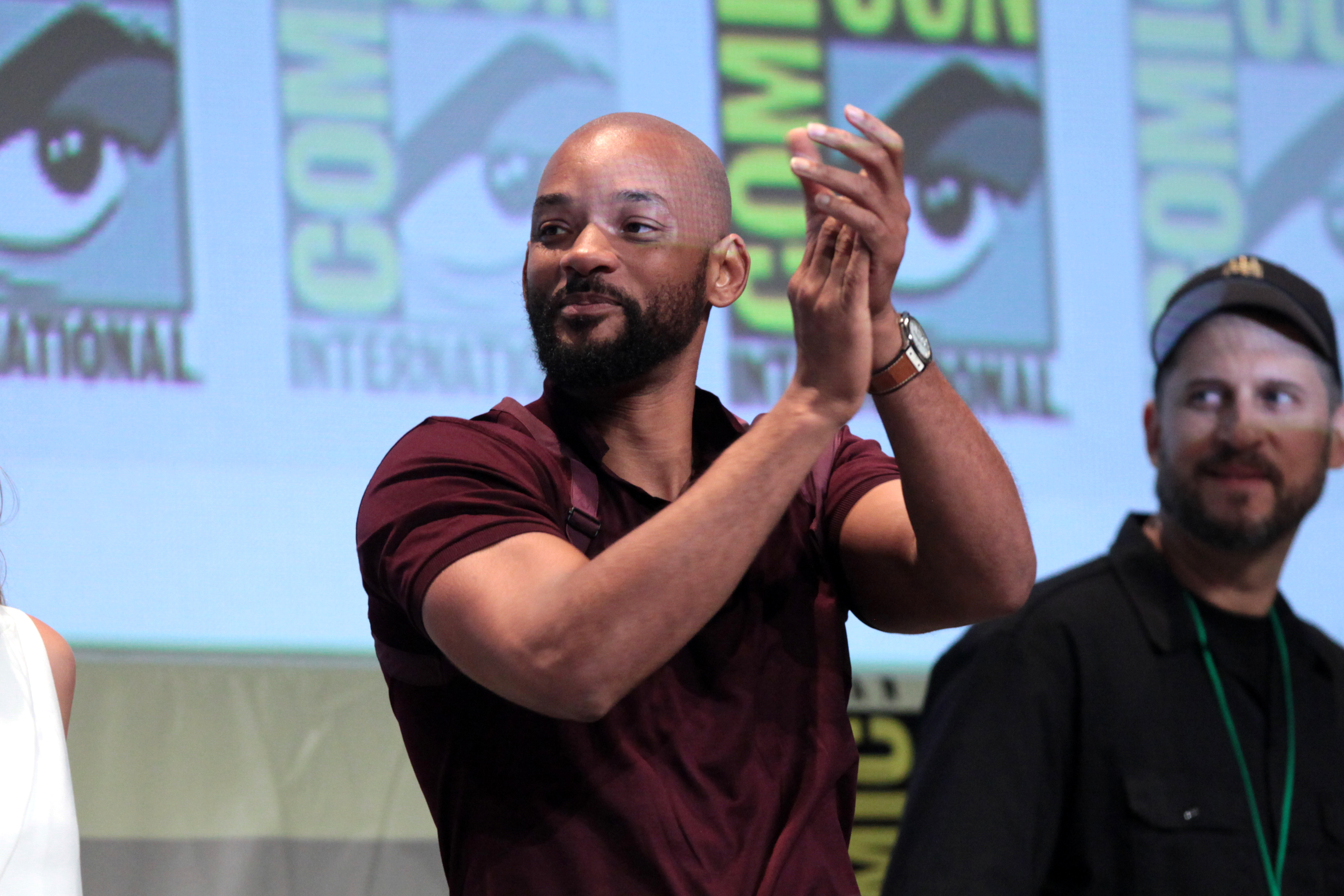 Will Smith and David Ayer speaking at the 2015 San Diego Comic Con International, for "Suicide Squad", at the San Diego Convention Center in San Diego, California.